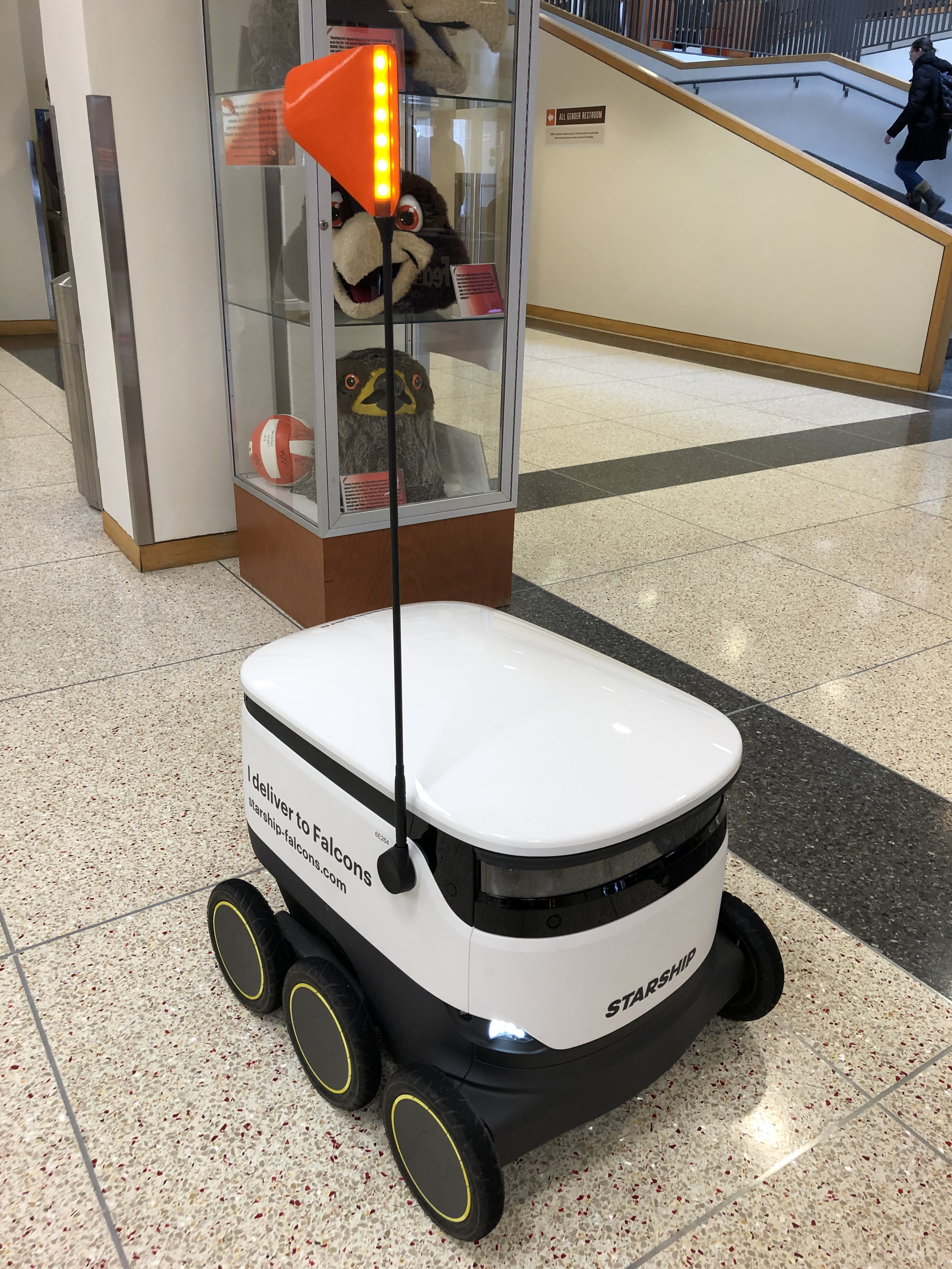 A Starship robot up close in the Bowen Thompson Student Union. In the background, a display case features old heads for the Freddy Falcon Mascot, In the back right hand side, the grand staircase is visible.